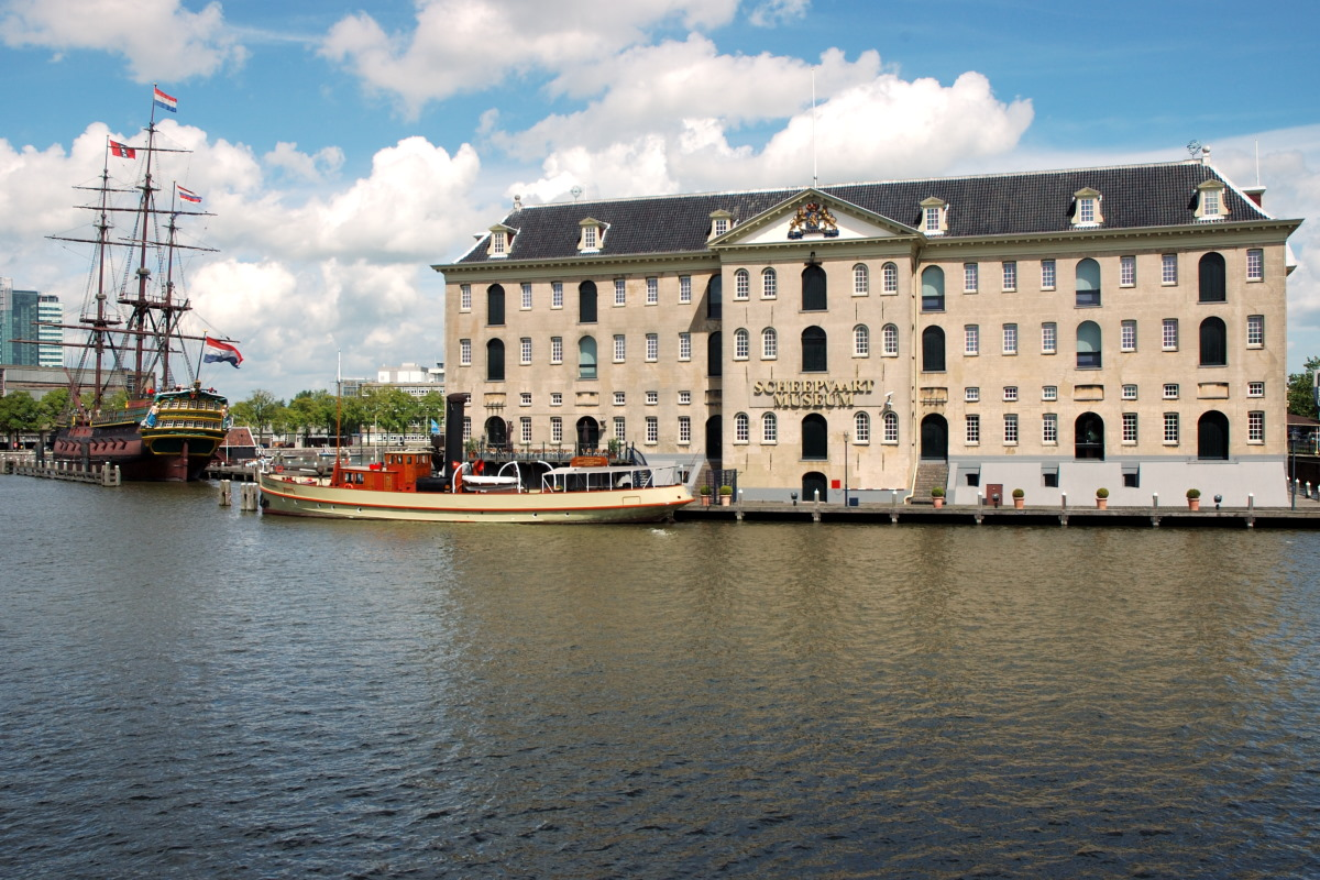 Het Scheepvaartmuseum Native nameHet ScheepvaartmuseumLocationKattenburgerplein 1 1018 KK Amsterdam NetherlandsCoordinates52° 22′ 17″ N, 4° 54′ 53″ E Established1916WebsiteScheepvaartmuseumAuthority control VIAF: 169571772 LCCN: nr88000551 GND: 008175128 BnF: cb123214837 WorldCat